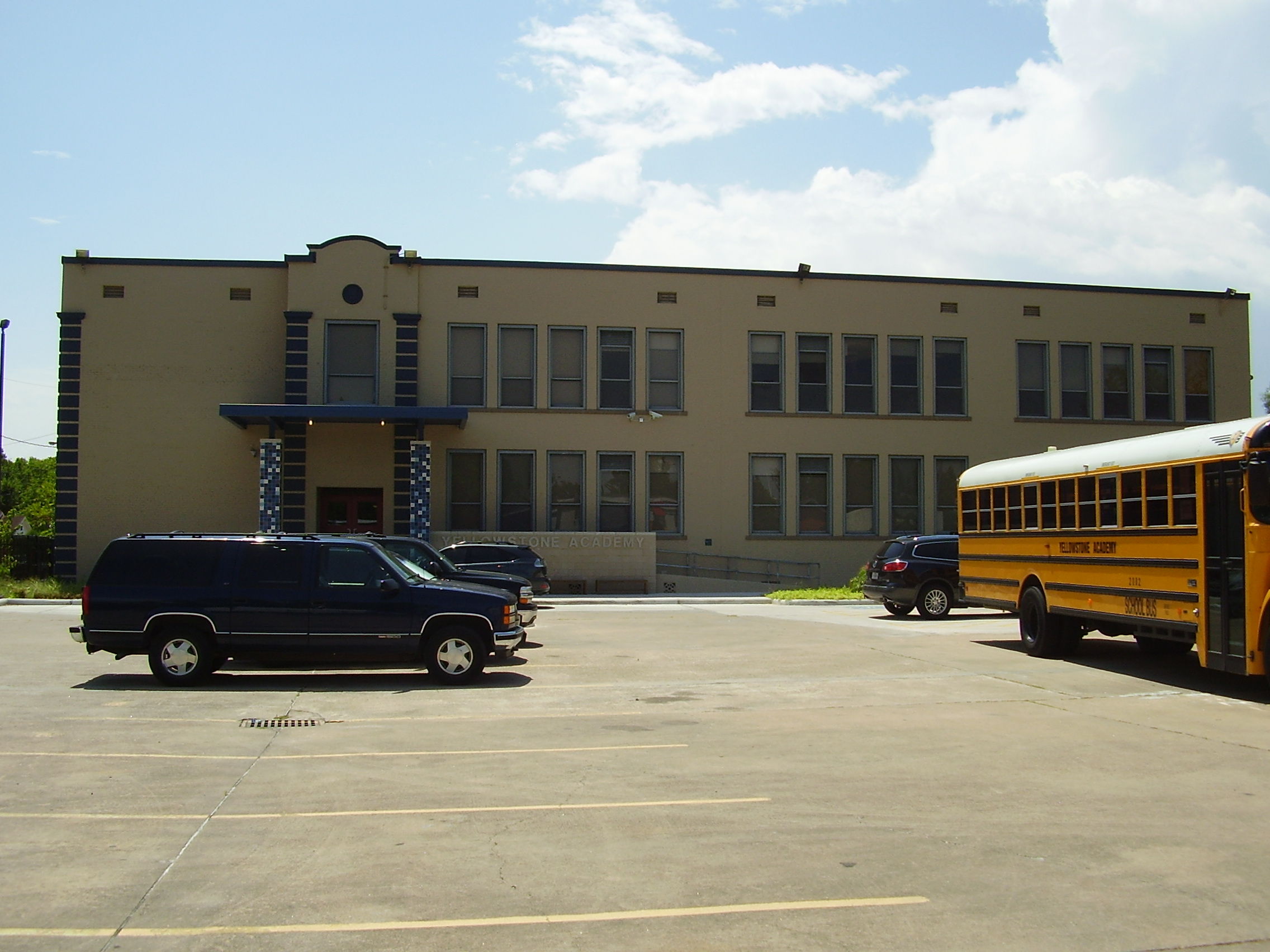 Yellowstone Academy, formerly Frederick Douglass Elementary School - 3000 Trulley Street, Houston, TX 77004